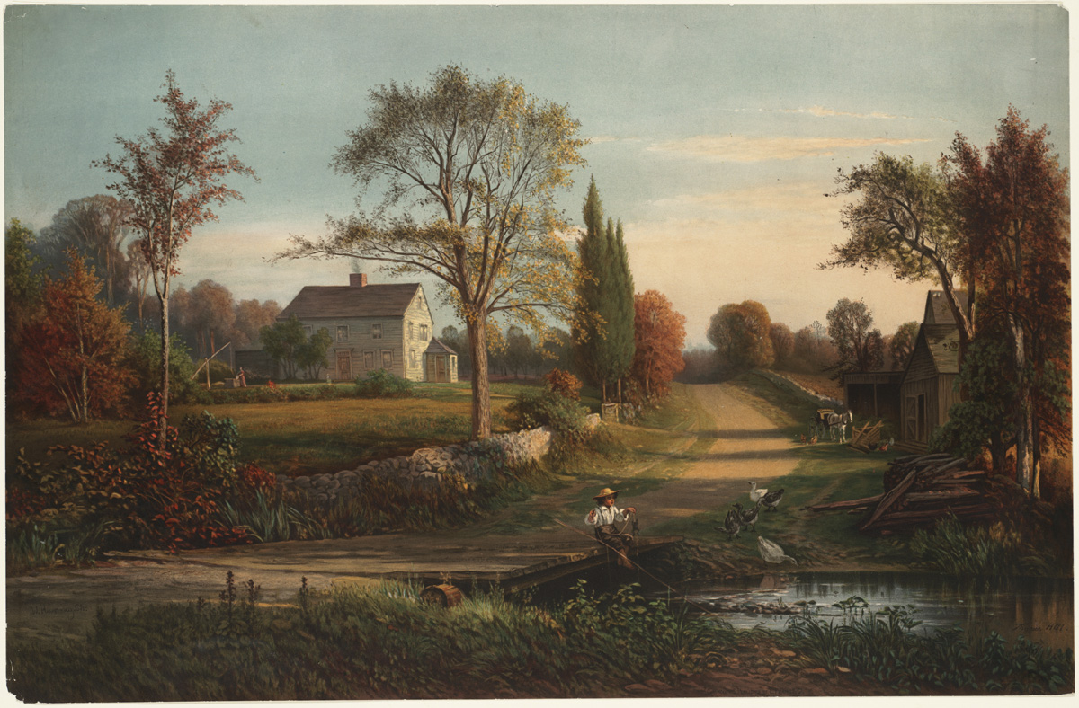 File name: 07_11_001420 Title: Whittier's Birthplace Creator/Contributor: Hill, Thomas, 1829-1908 (artist); L. Prang & Co. (publisher) Date issued: 1861-1897 (approximate) Copyright date: Physical description note: Genre: Chromolithographs; Genre prints Location: Boston Public Library, Print Department Rights: No known restrictions Flickr data on 2011-08-03: Camera: Sinar AG Sinarback 54 FW, Sinar m License: CC BY 2.0 User: Boston Public Library BPL